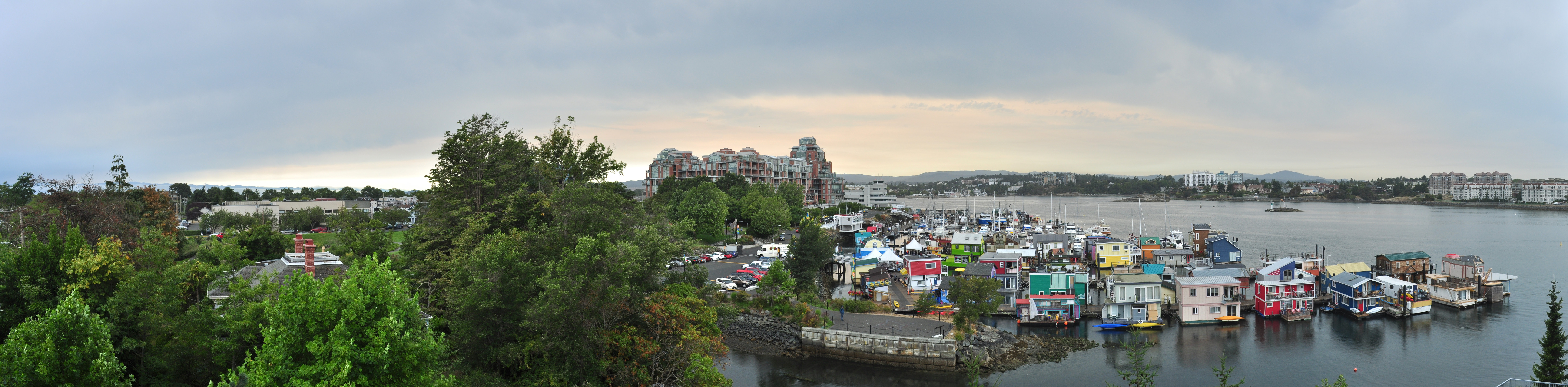 Panoramic view of Fisherman's Wharf, Victoria, British Columbia. This image was created with Hugin.